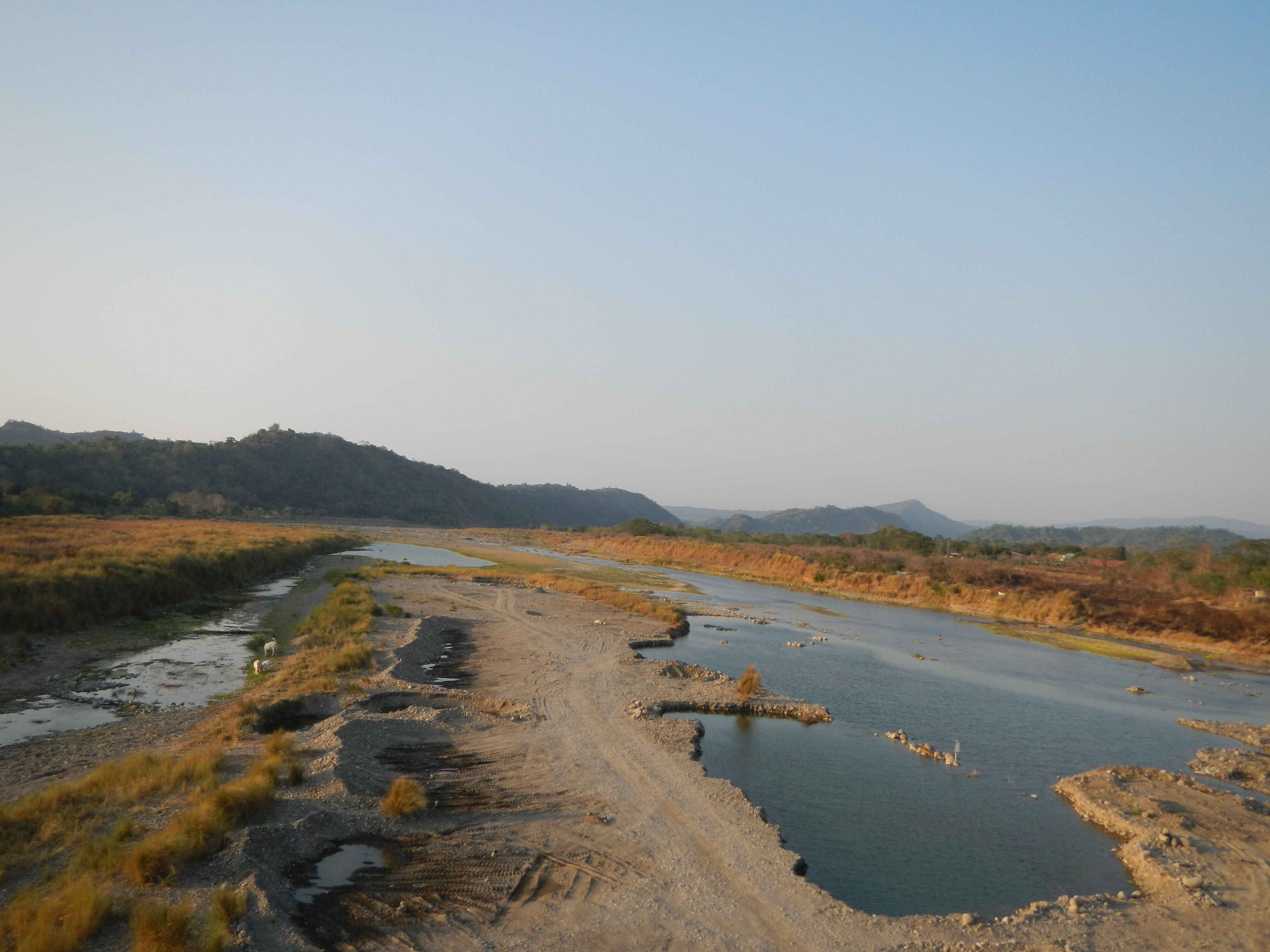 Naguilian, La Union River view from the Bridge, sitio Lubong.